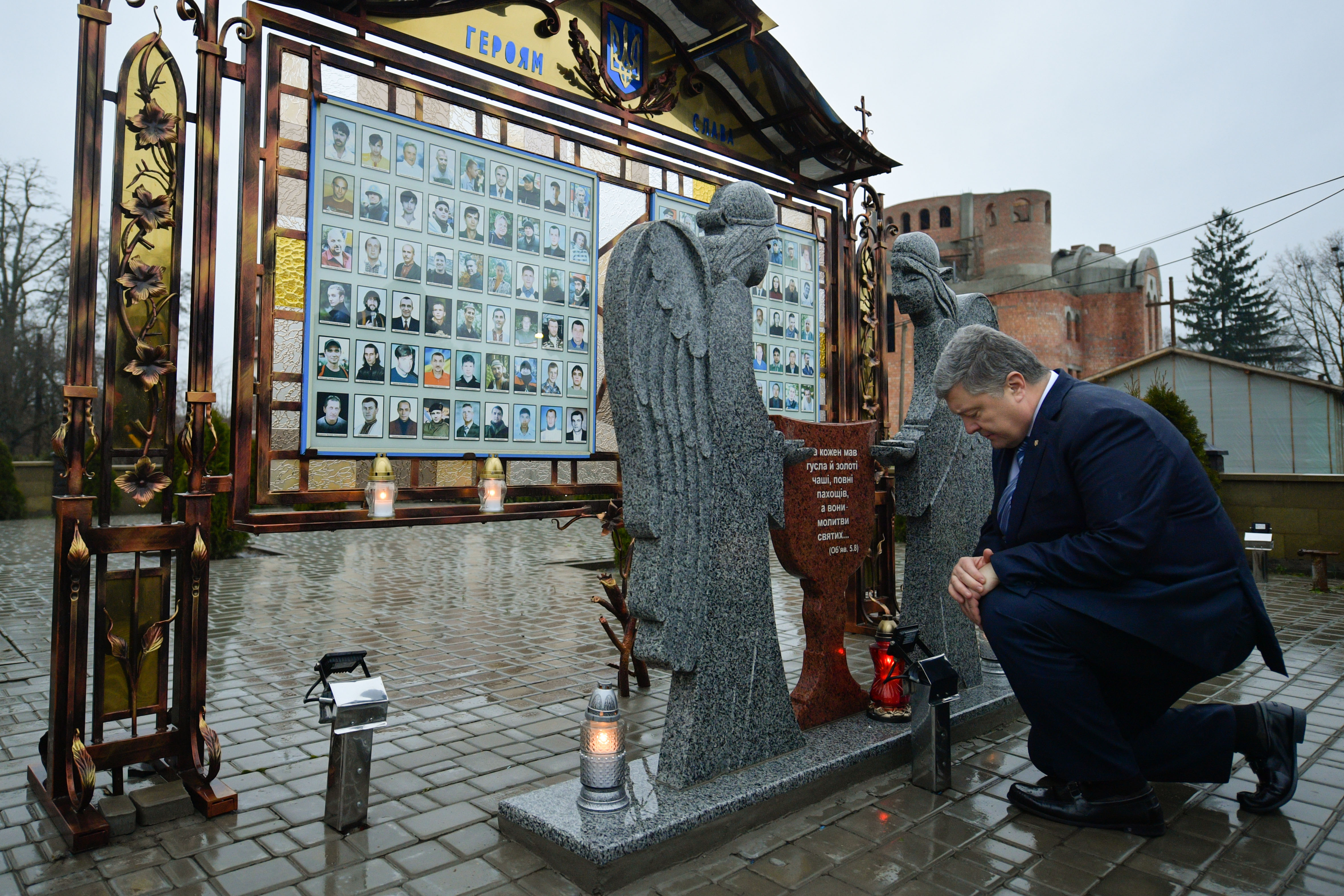 У рамках робочої поїздки до Львівської області Президент Петро Порошенко вшанував пам'ять героїв, які загинули у боротьбі за Україну, 8 грудня 2018 року